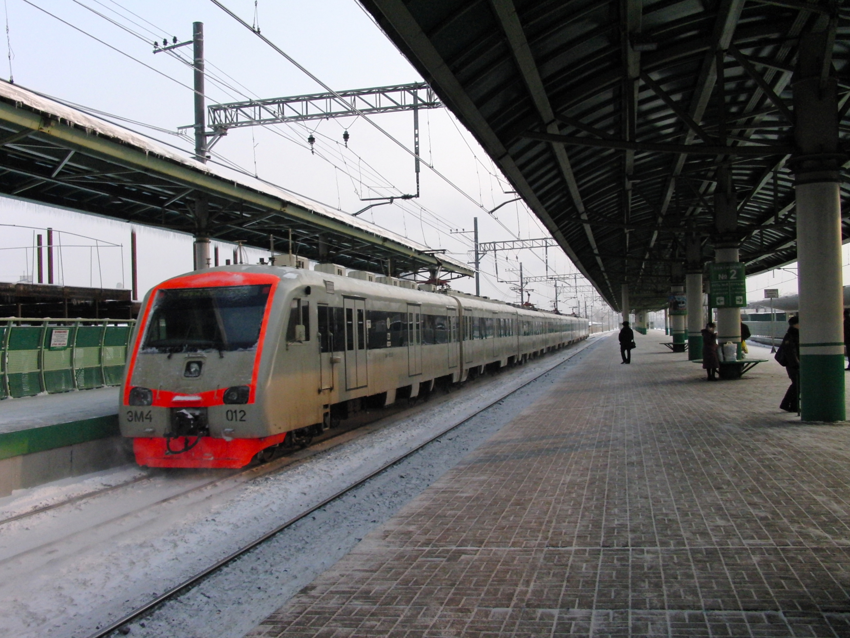 EM4 "Sputnik" express local train from Moscow (Скоростной электропоезд ЭМ4 "Спутник" из Москвы)